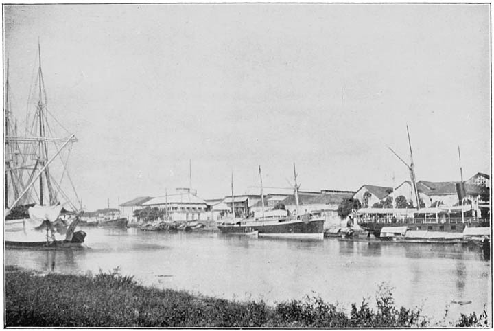 River Pasig, showing Russell and Srugis's Former Office (Manila, 1900)